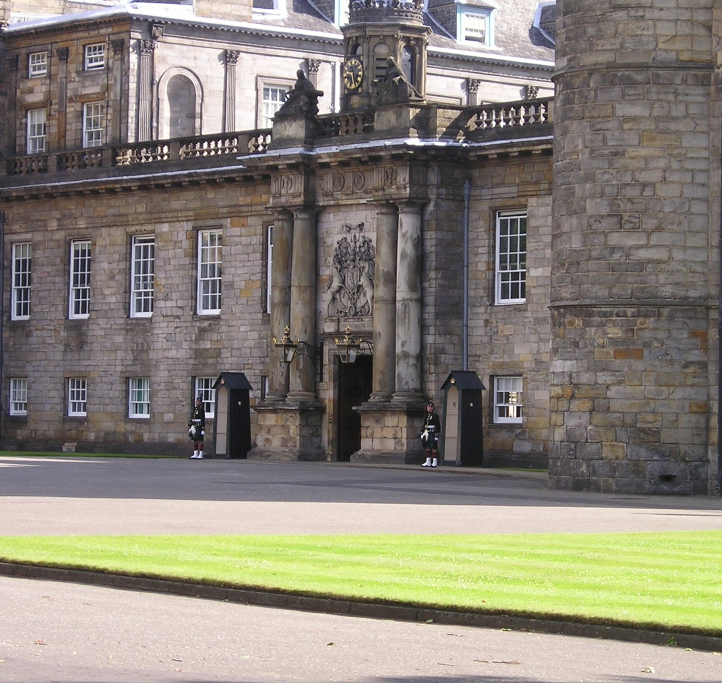 Guards posted outside the front entrance to the Palace of Holyroodhouse when the Queen is in residence.